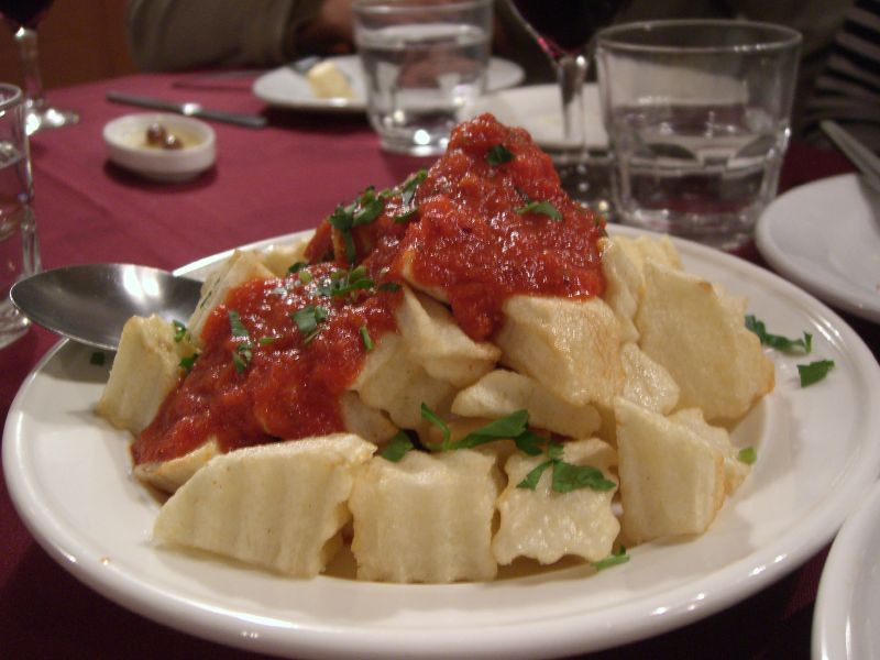 Patatas Bravas, a typical Spanish tapa. Fluffy fried potatoes covered in a spicy chilli salsa.The photo was taken at "Colmao Flamenco" restaurant.